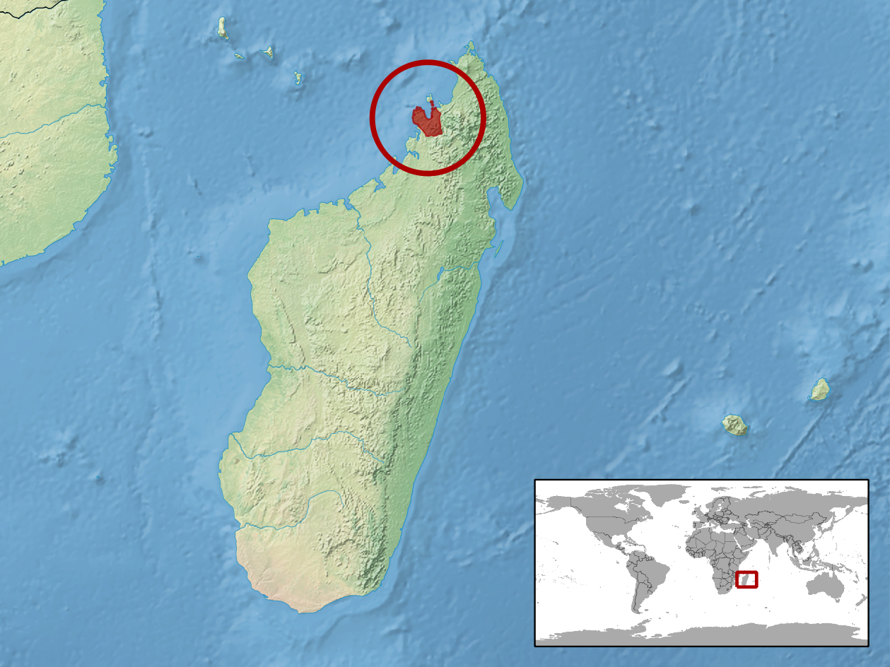 geographic distribution of Phelsuma seippi (Native: Madagascar)